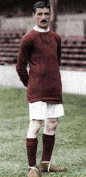 Billy Meredith for United, where he played 1906-1921.